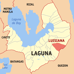 Locator map of Luisiana in Laguna, Philippines.